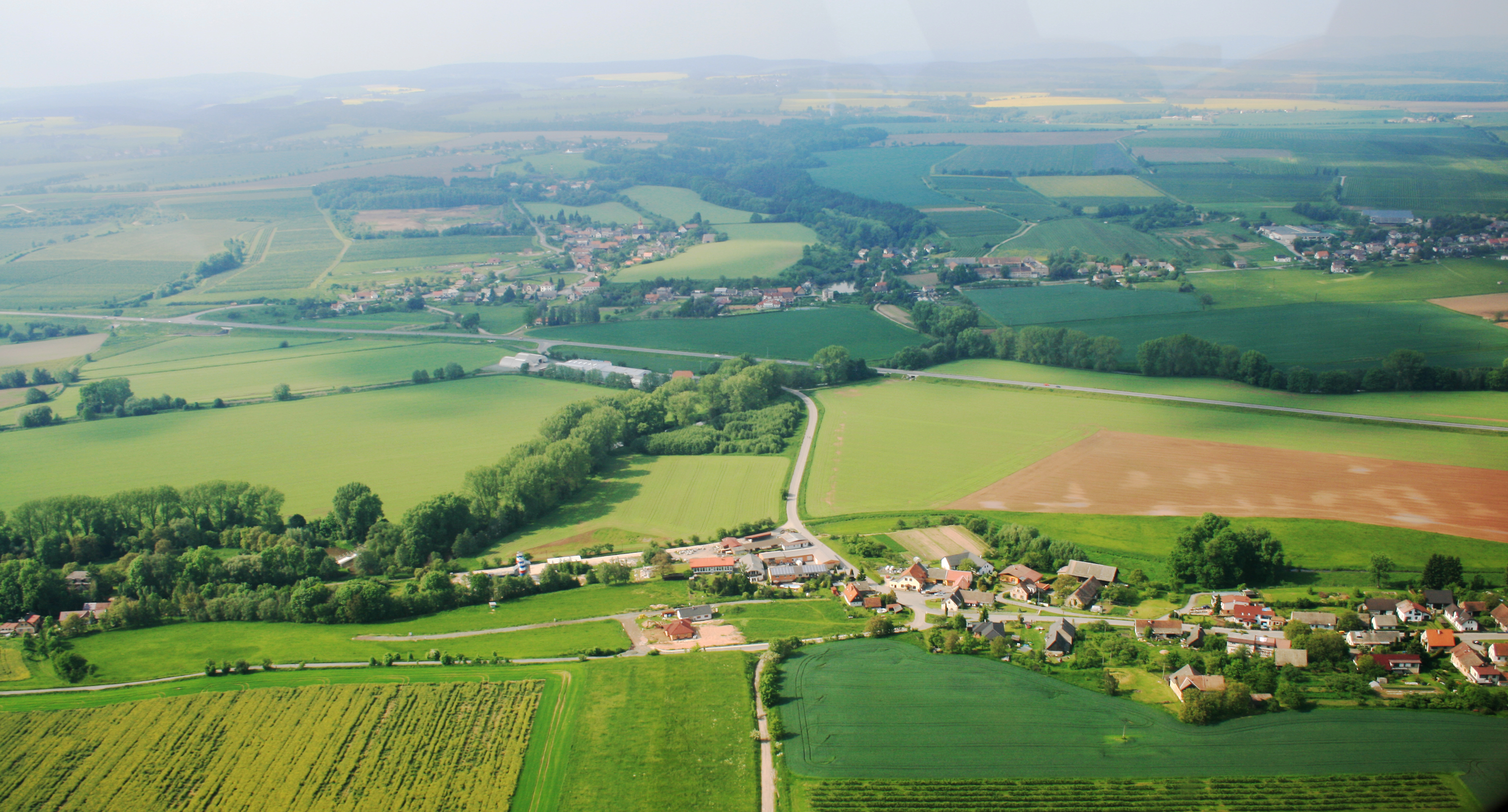 Villages Říkov and Velký Třebešov (back) from air, eastern Bohemia, Czech Republic